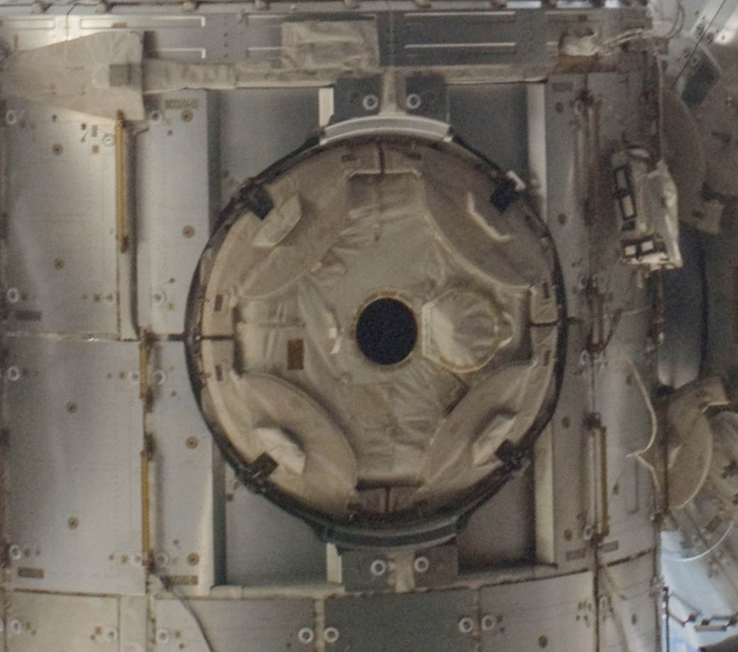 Harmony Zenith